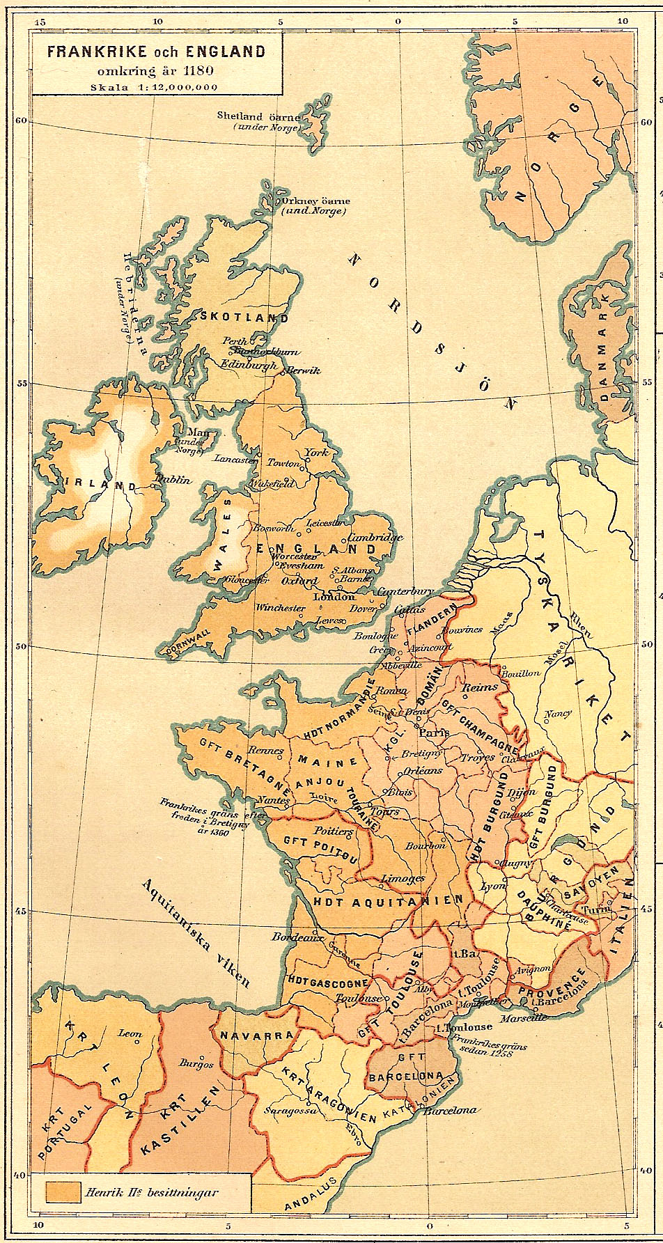 Historic map (swedish) of France and England around 1180 ad.